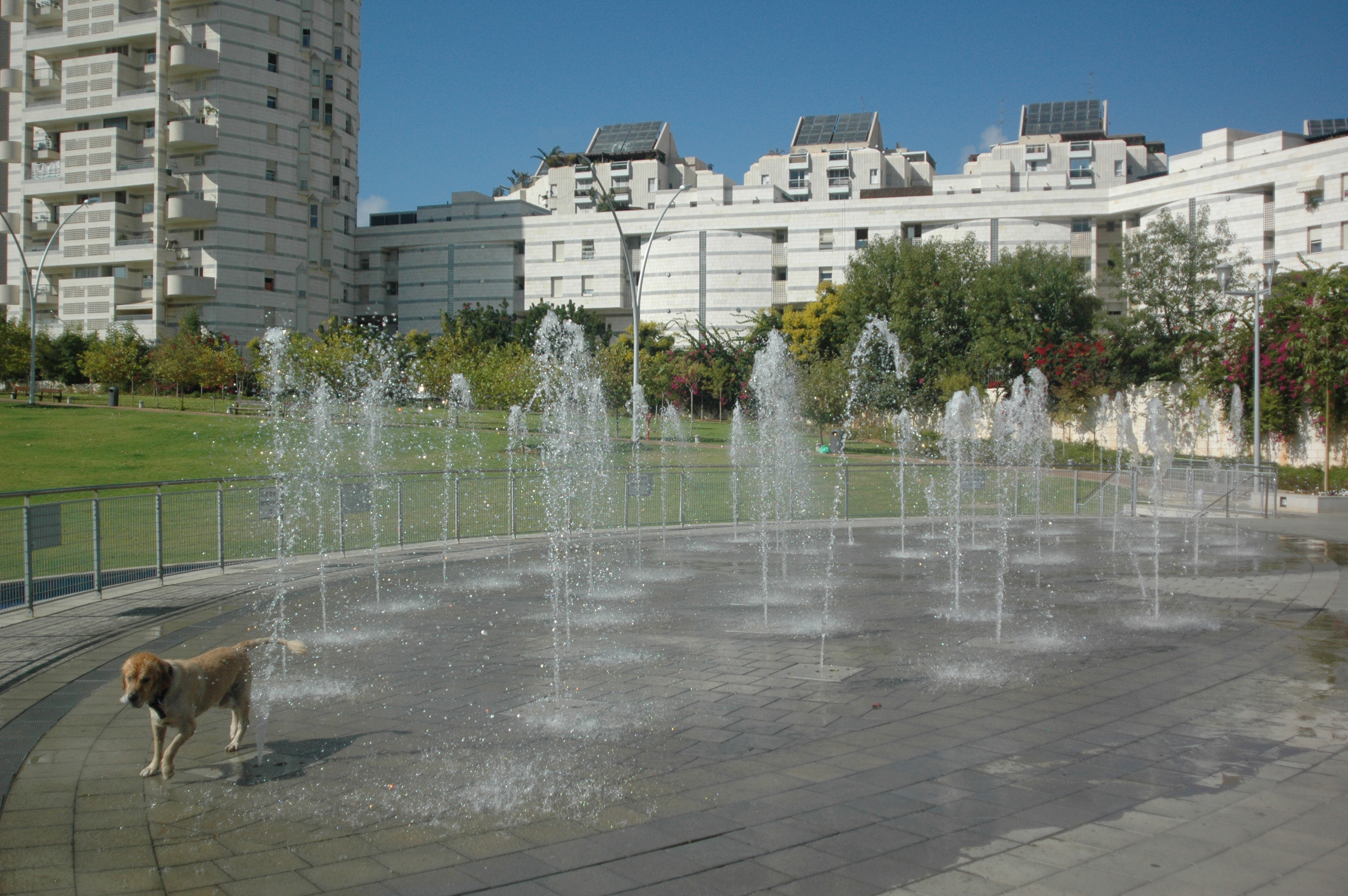 computerized fountain in Givataim Park